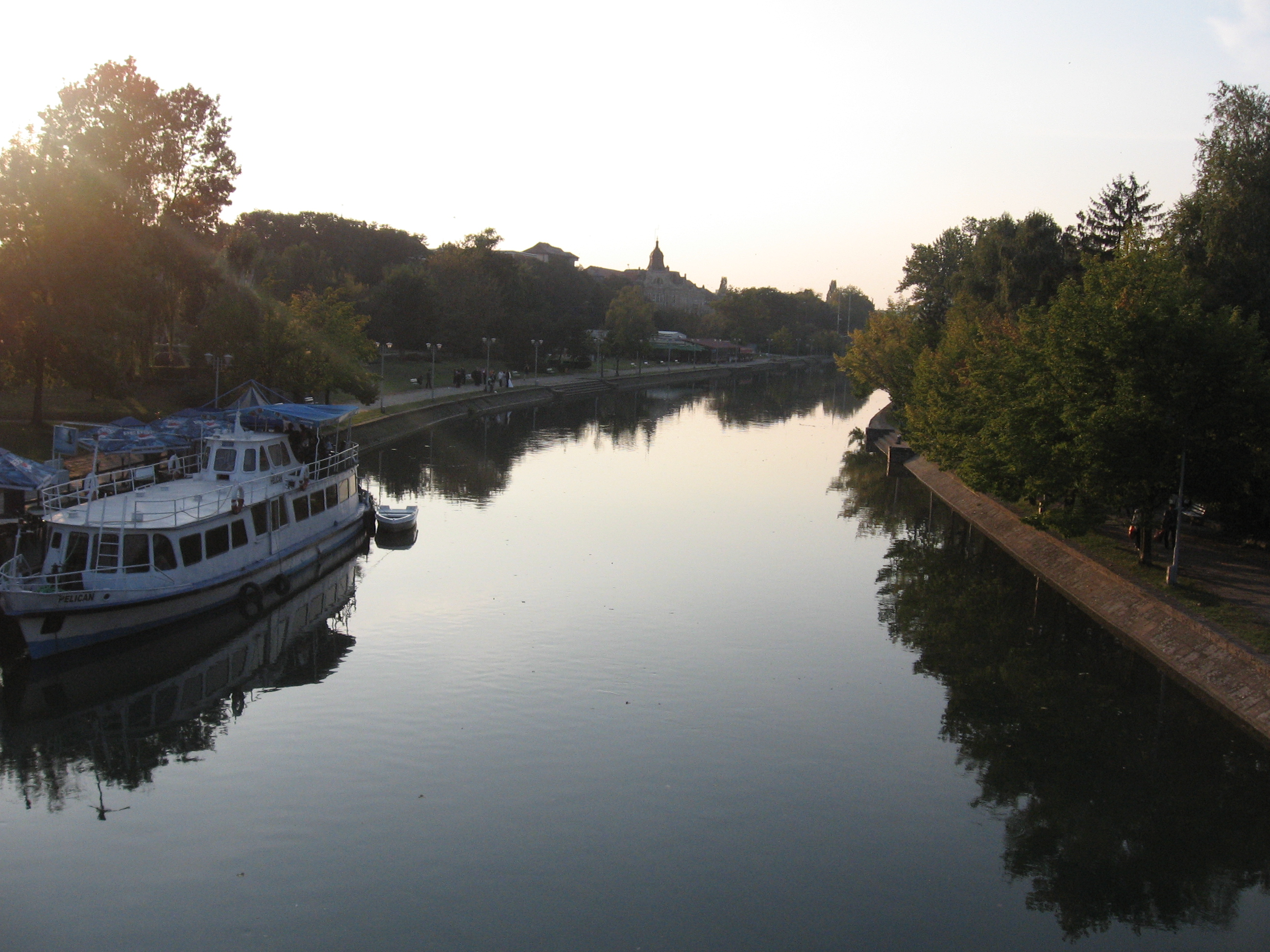 The Bega Canal, Zsolt Dudás